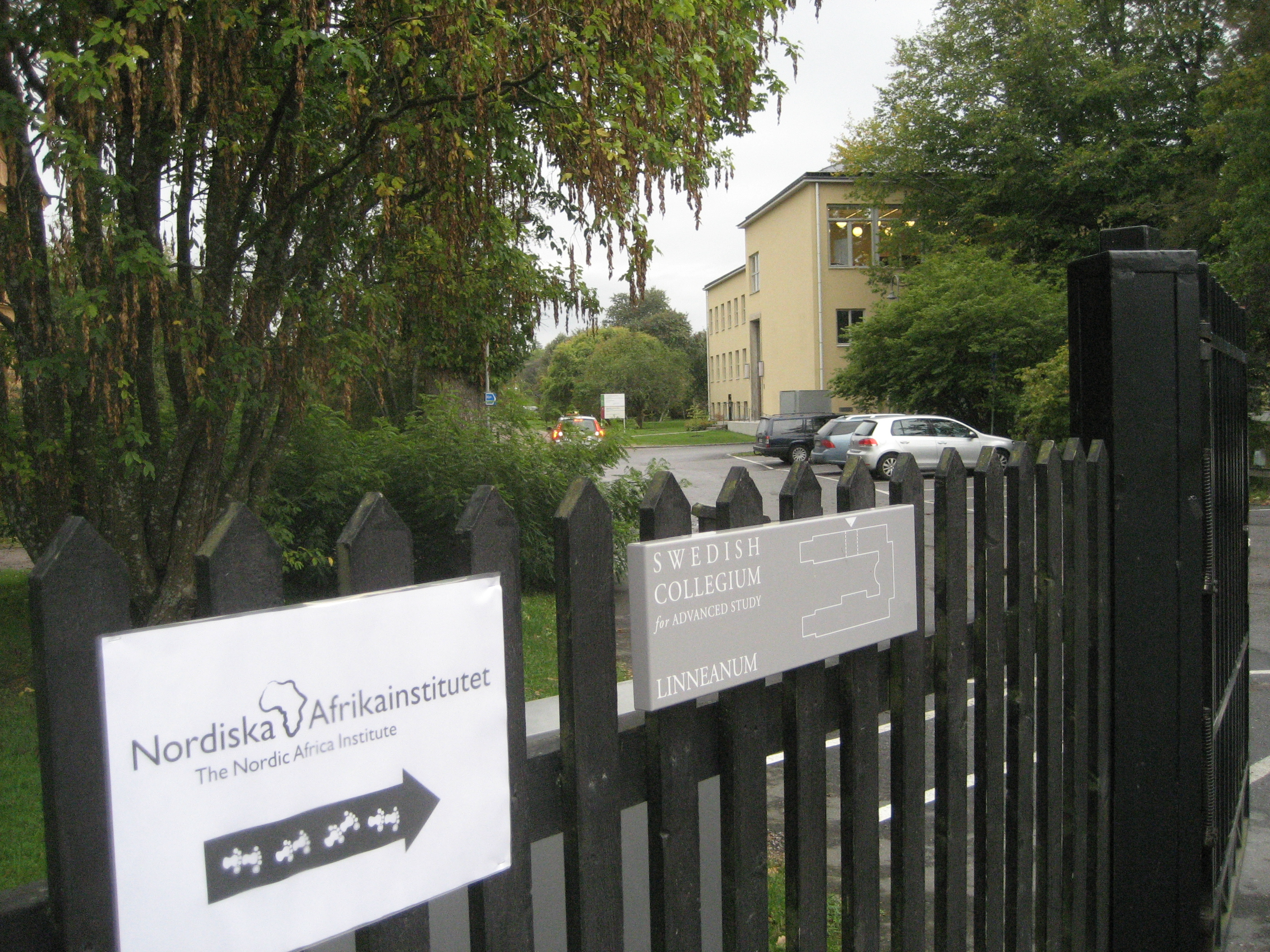 Nordic Africa Institute (Nordiska Afrika Institutet) & Swedish Collegium for Advanced Study in the Social Sciences, Linneam, Uppsala University (Sweden)